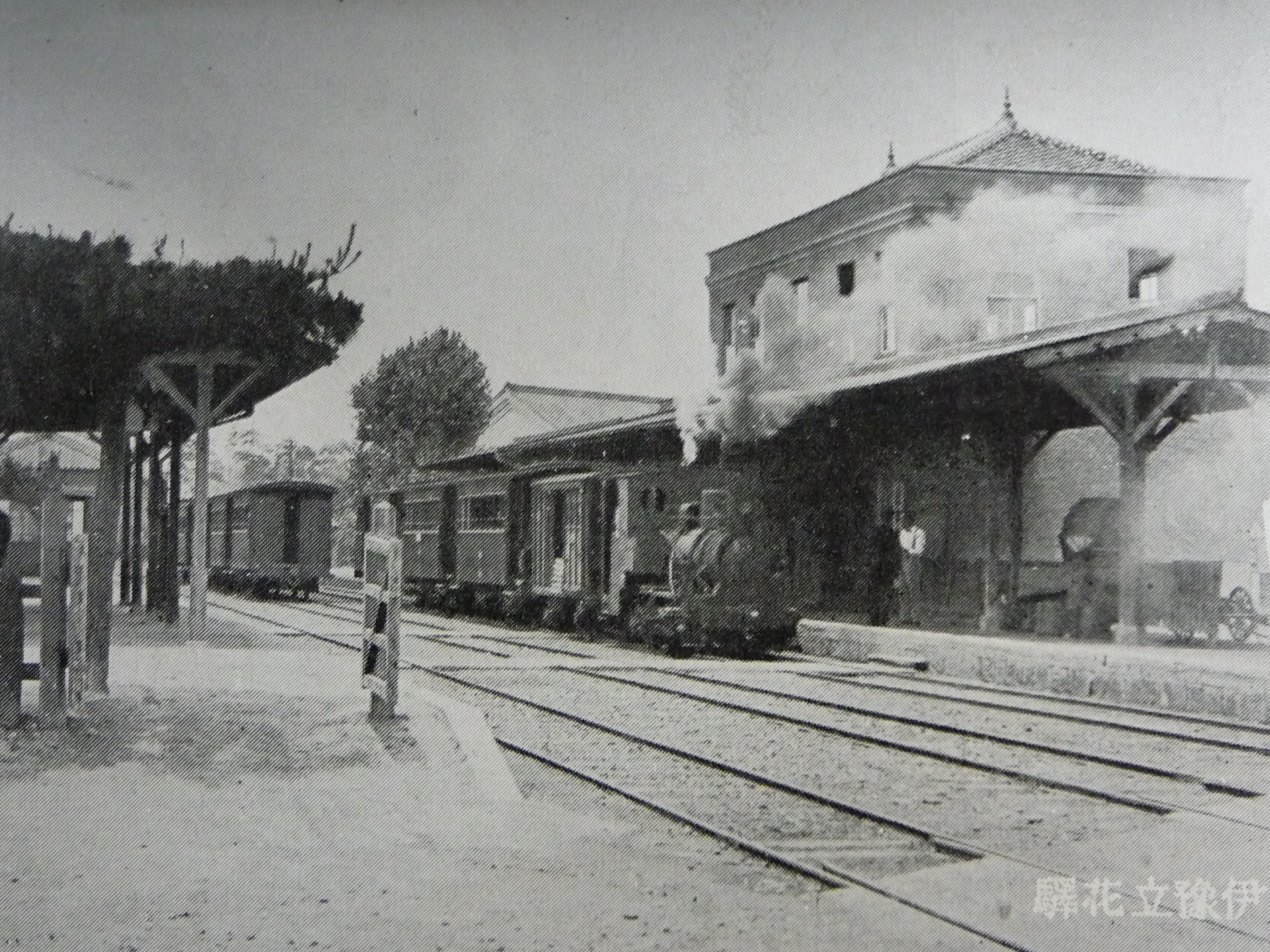 Iyo Railway Iyo-Tachibana Station